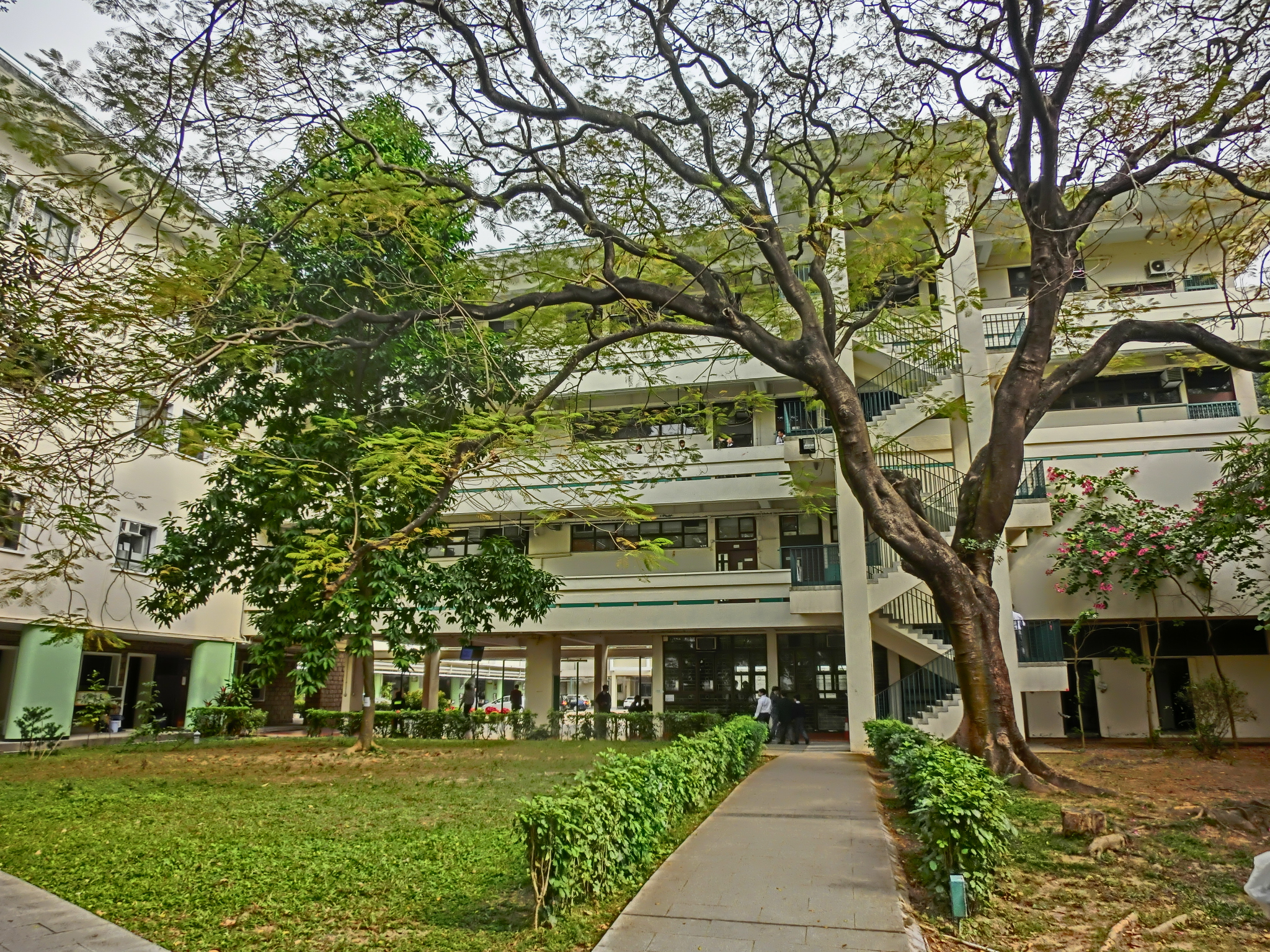 九龍華仁書院, Wah Yan College, Kowloon, King's Park, Yau Ma Tei, Hong Kong